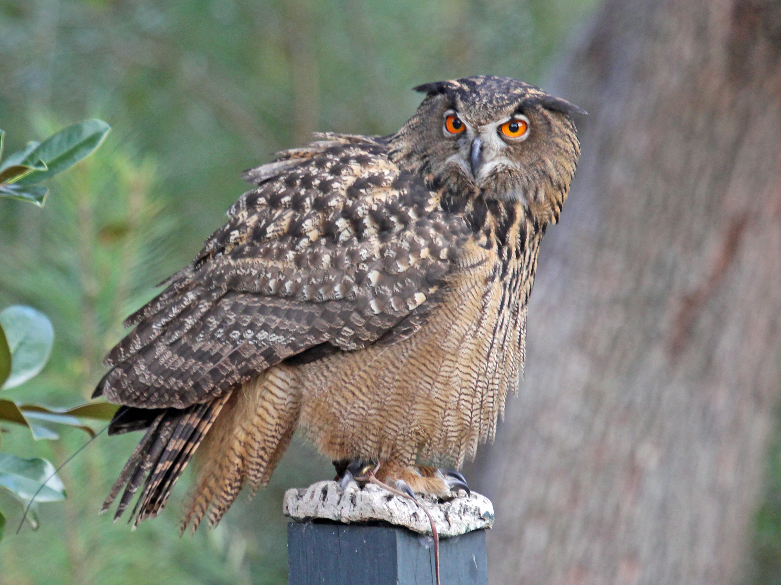 Eurasian Eagle-owl (Bubo bubo) at the Center for Birds of Prey, Charleston, South Carolina .